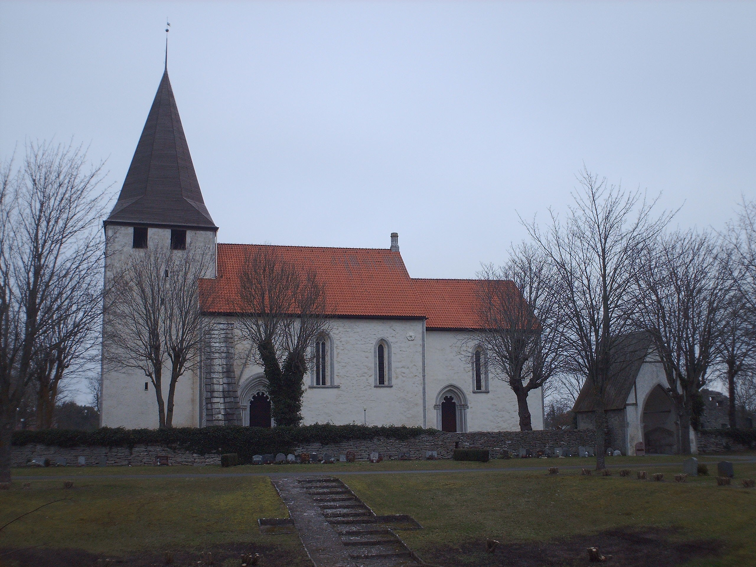 Bunge church in Bunge (parish) on Gotland, Sweden